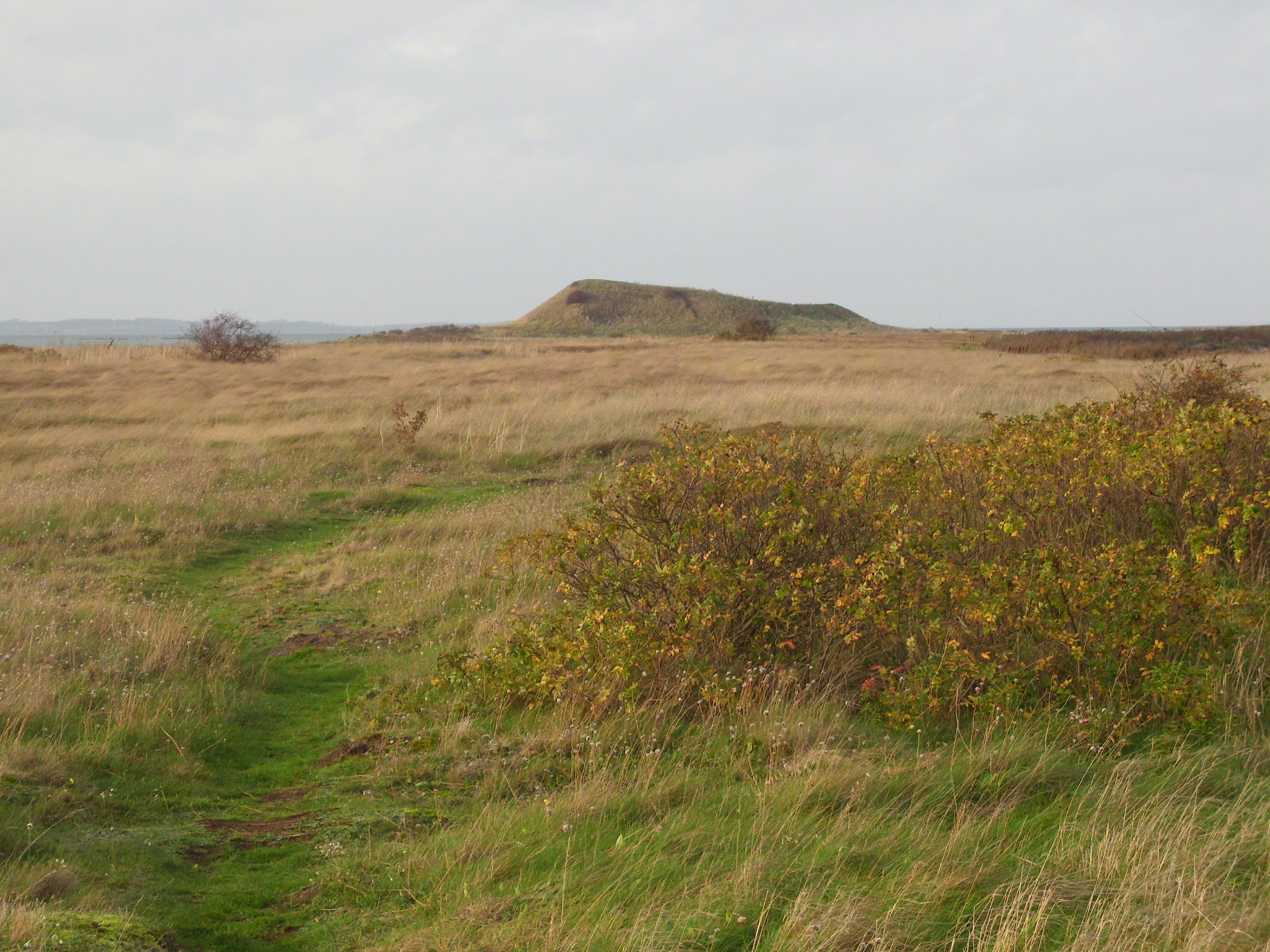 "Skanse" ("fortress") hill on Besser Rev, an isthmus off Samsø, Denmark.